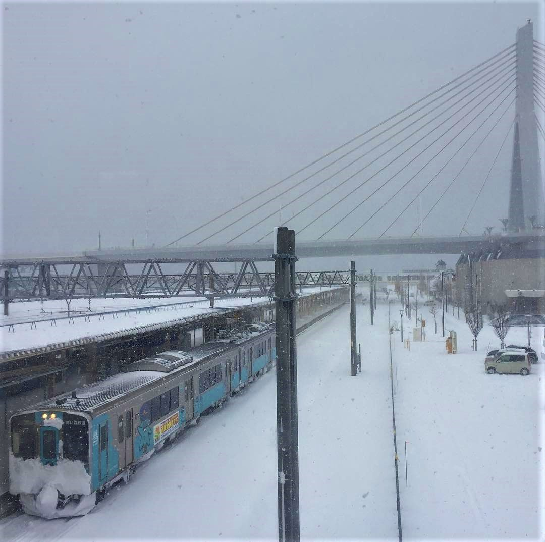 Aoimori Railway 701 series EMU at Aomori Station during the winter